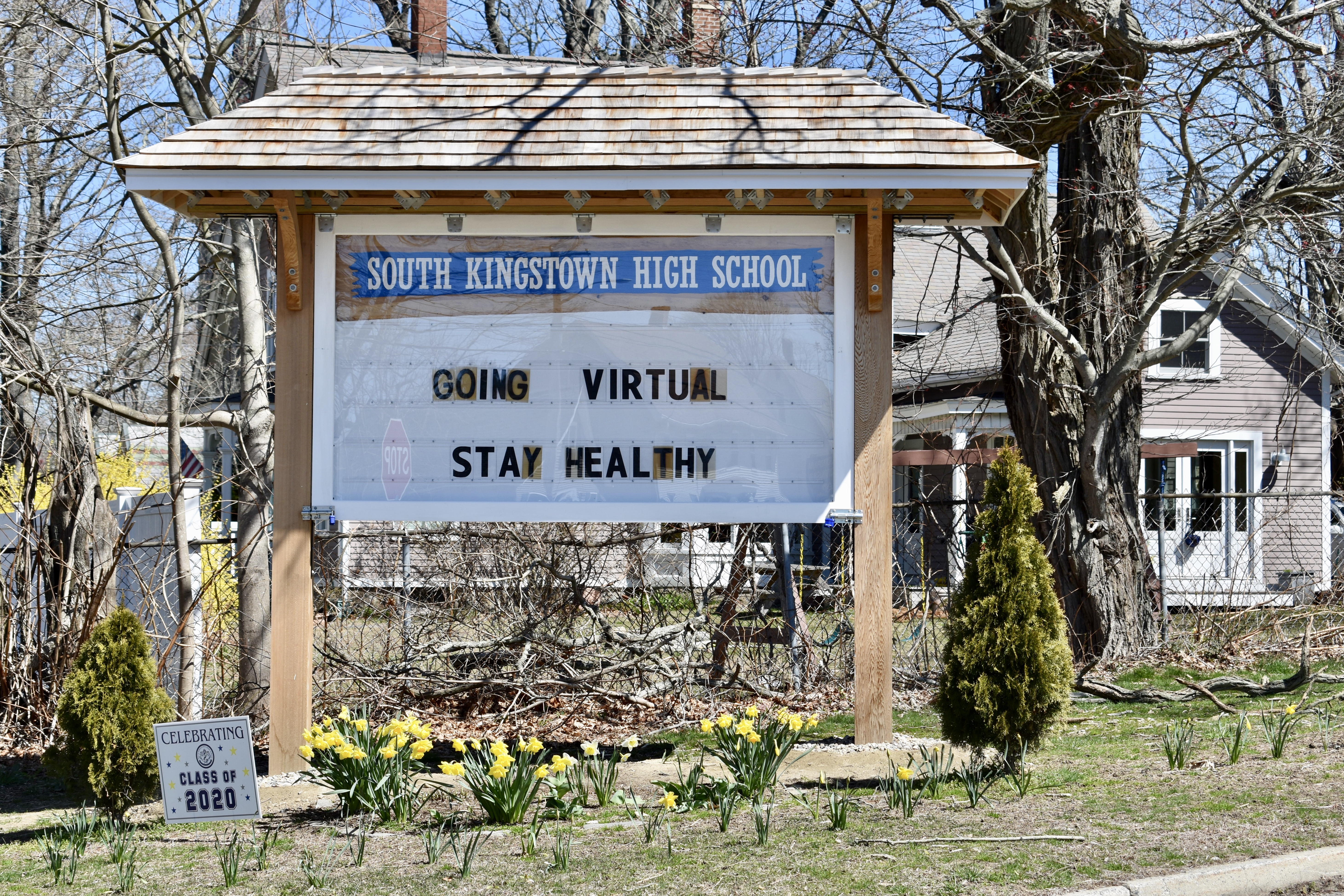 The announcement board reads "Going Virtual! Stay Healthy". Any car driving on the main road passing the high school can see this sign.